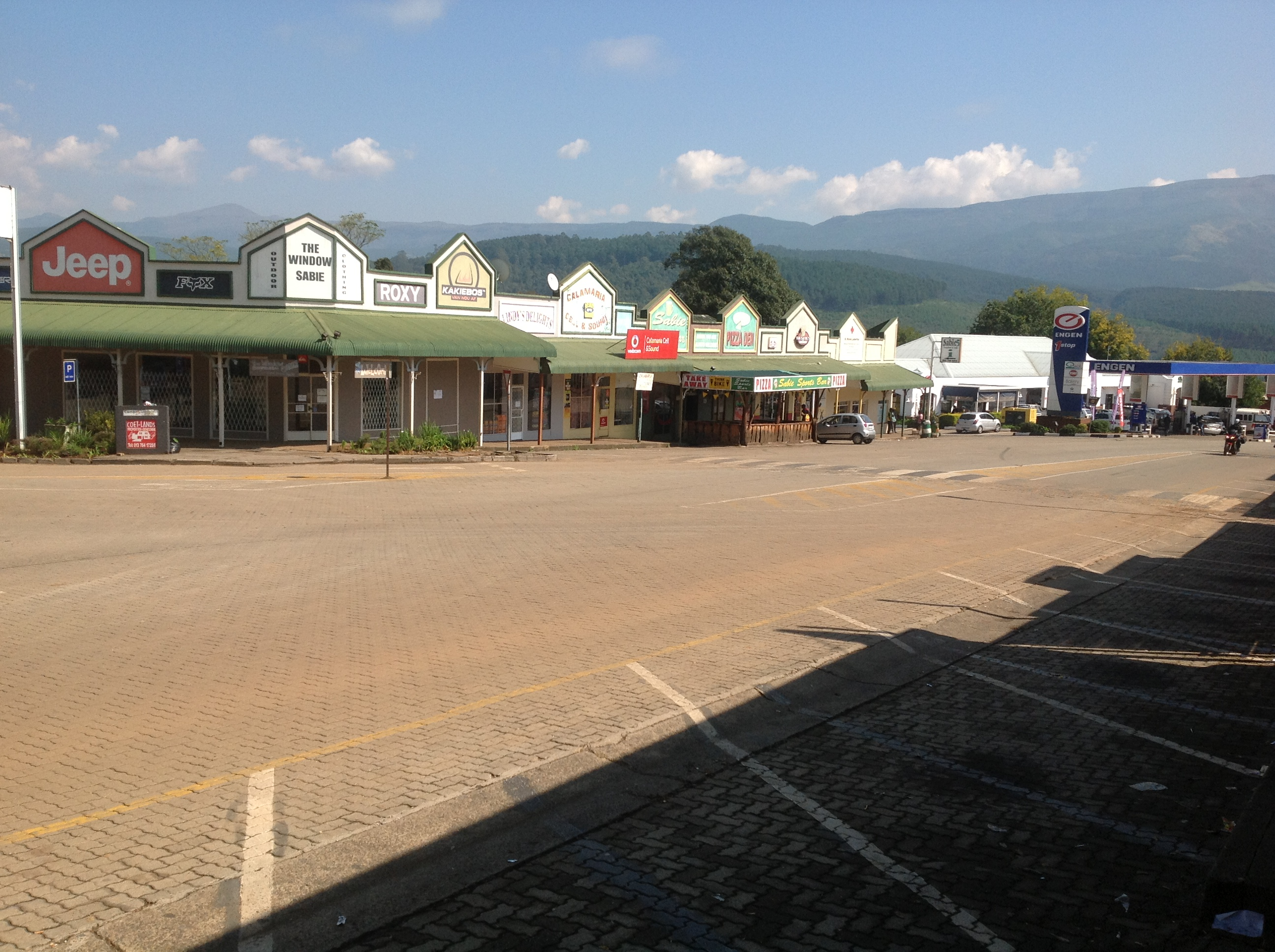 Main Street, Sabie, Mpumalanga, South Africa